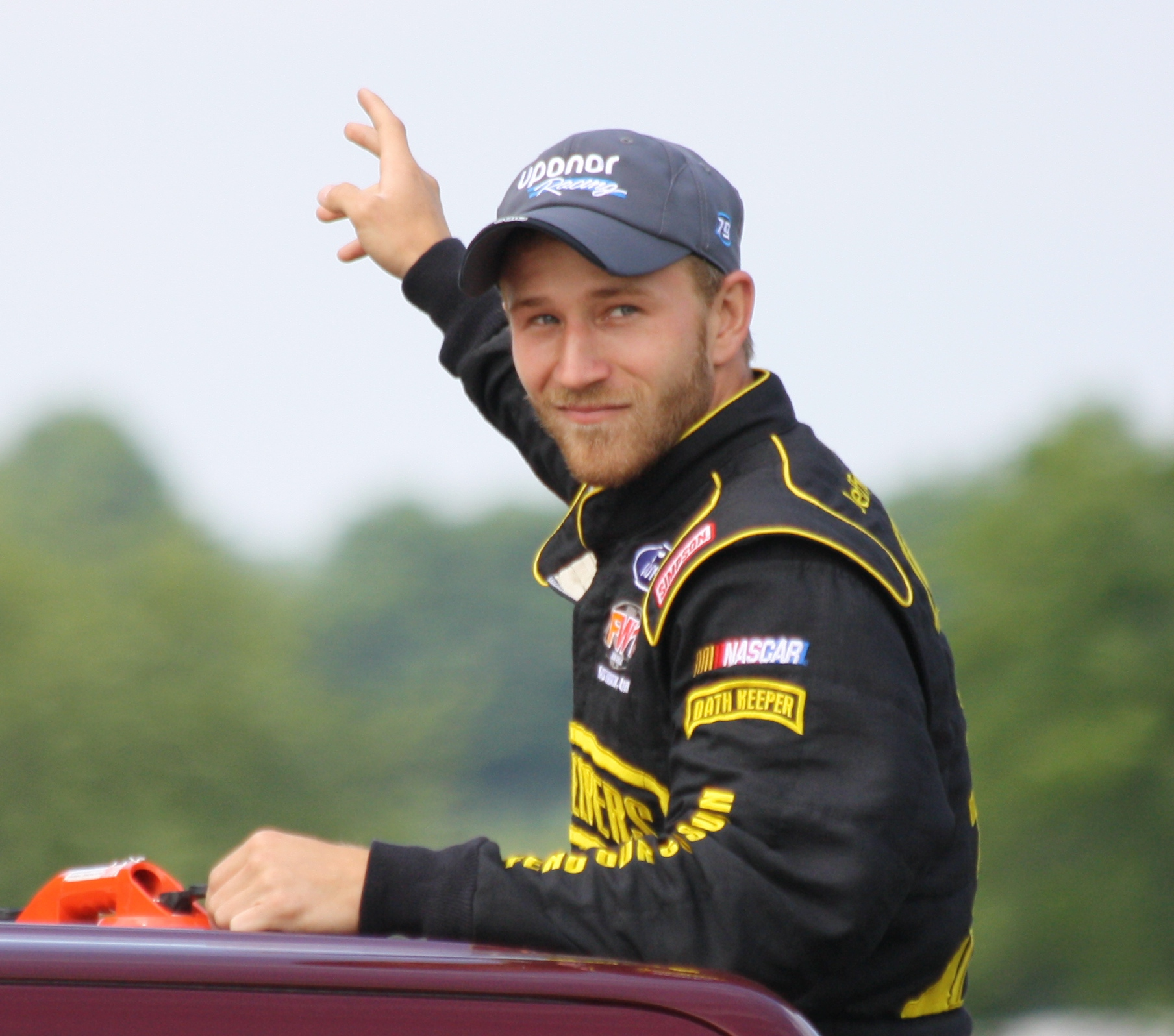 NASCAR driver Jeffrey Earnhardt at the 2013 Johnsonville Sausage 200 Nationwide Series race at Road America.